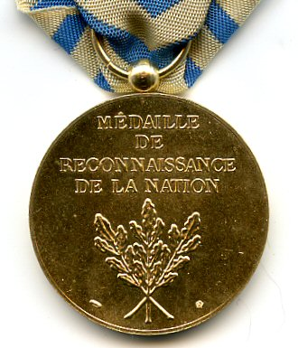 Reverse of the Medal of the Nation's Recognition (France)